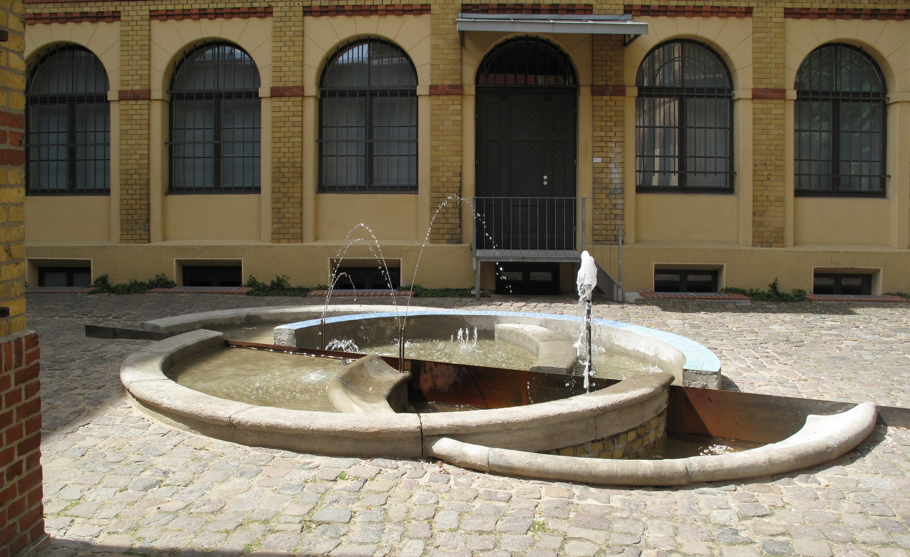 Fontes e sequestros is an art work, created by brazilian installation- and conceptual artist Renata Lucas on the occasion of Berlins Gallery Weekend 2015. It was presented by the gallery neugerriemschneider in the listed building Linienstraße No. 155 in Berlin-Mitte, Germany. The central part of the work, a fountain, is placed in the courtyard of the gallery. In the work Lucas combined the recasted structures of three Berlin-fountains from different architectural epochs into a new historical symbol.